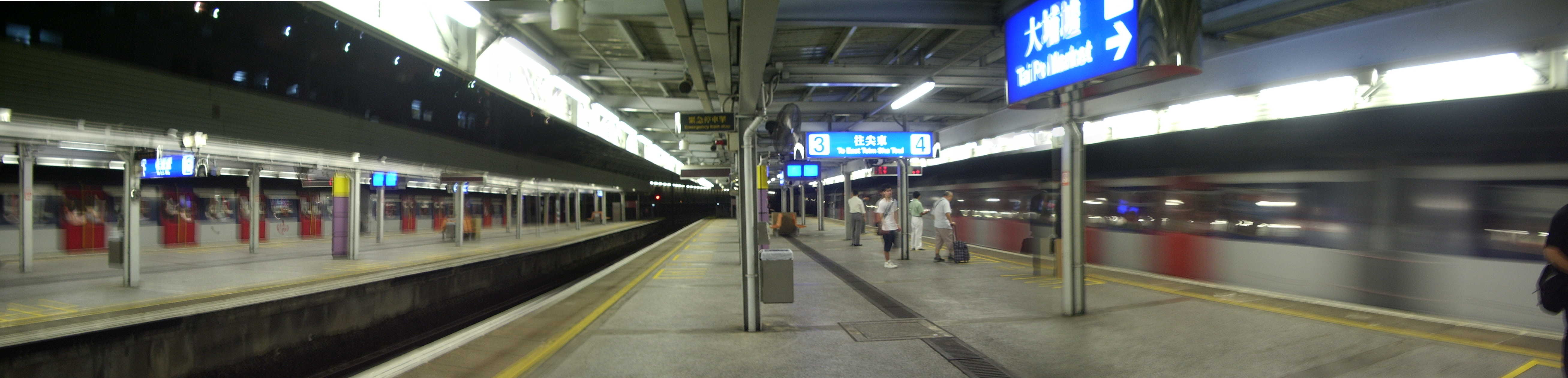 Panorama of platforms, viewing from Platform 3 (towards East Tsim Sha Tsui station) westwards, Tai Po Market station, KCR East Rail, Hong Kong